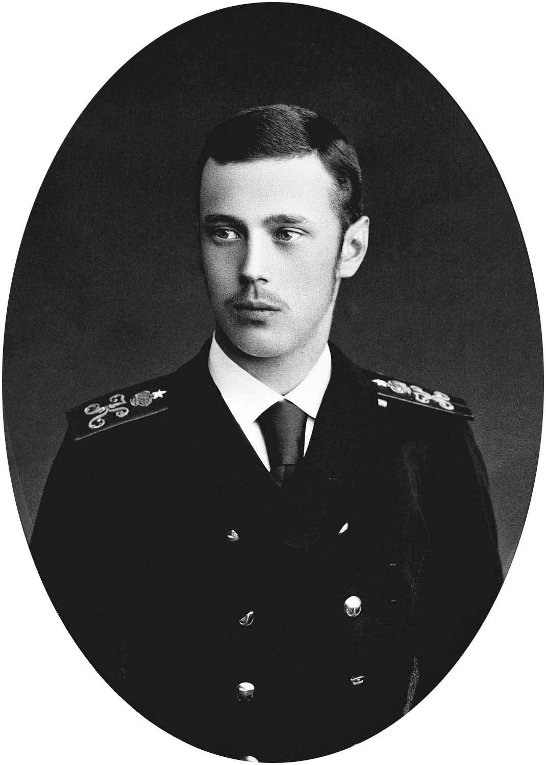 Photo of Tsesarevich George Alexandrovich